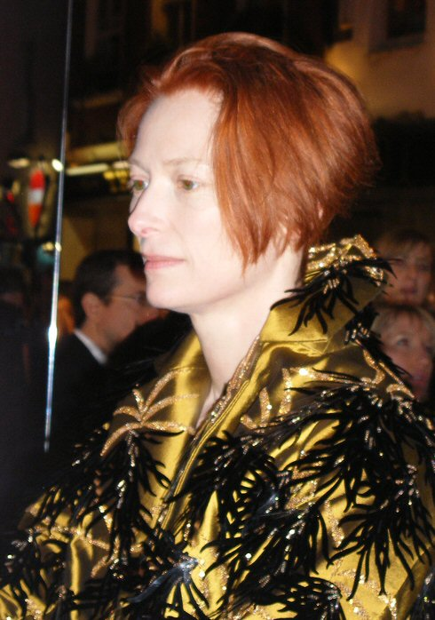 Tilda Swinton